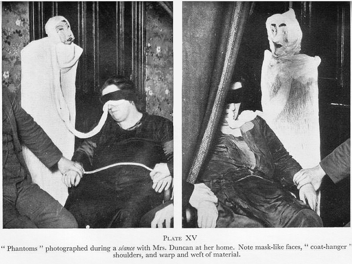 Photographs revealing the fraud mediumship of Helen Duncan. Malcolm Gaskill revealed in his book Hellish Nell: Last of Britain's Witches (Fourth Estate, 2001) that the photographs were taken by the photographer Harvey Metcalfe in 1928 during a séance at Duncan's house.